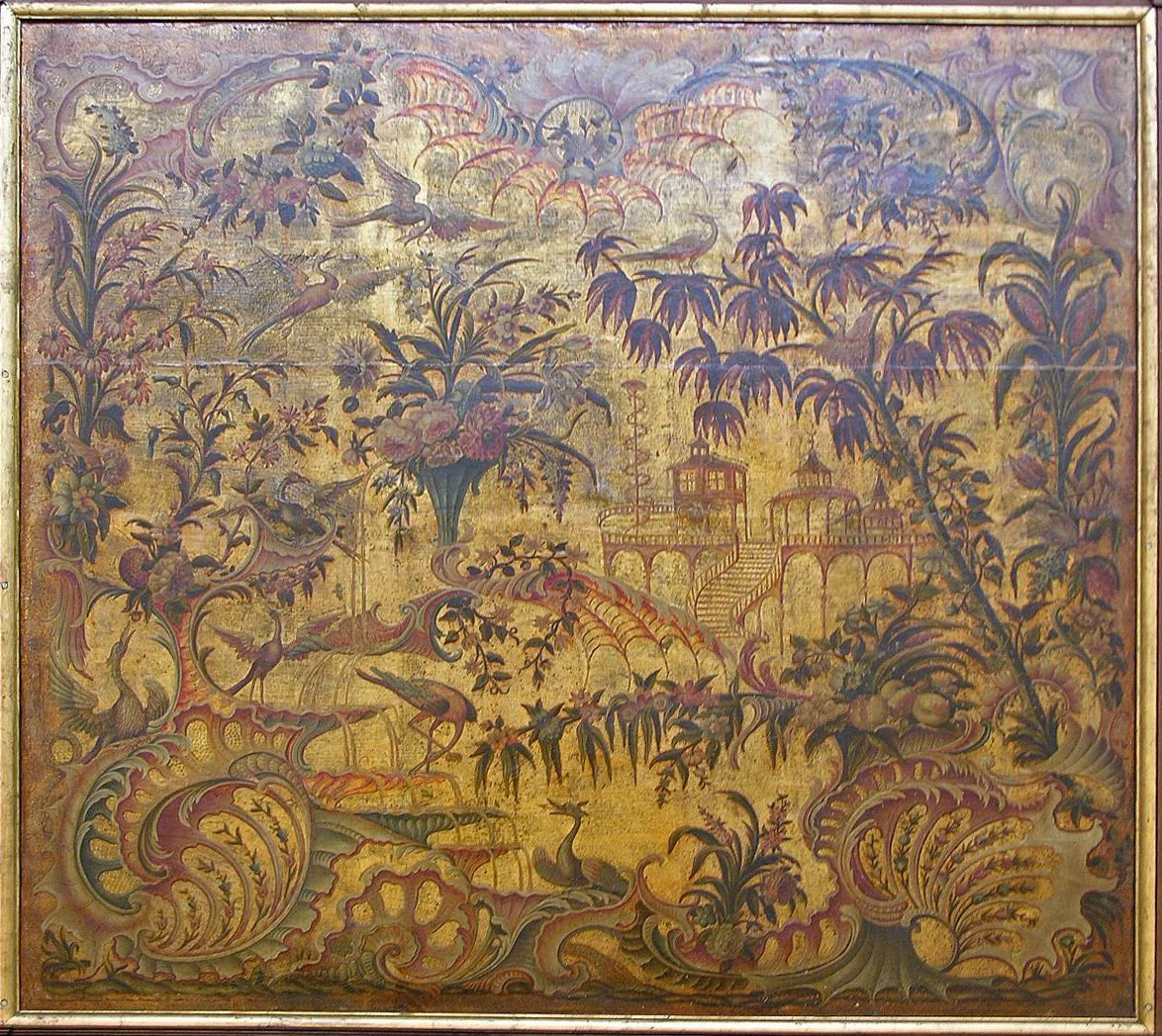 Goldleather, produced manufacture Cornelis 't Kindt (ca 1765) in Abbaye Notre-Dame de Malonne (Belgium)